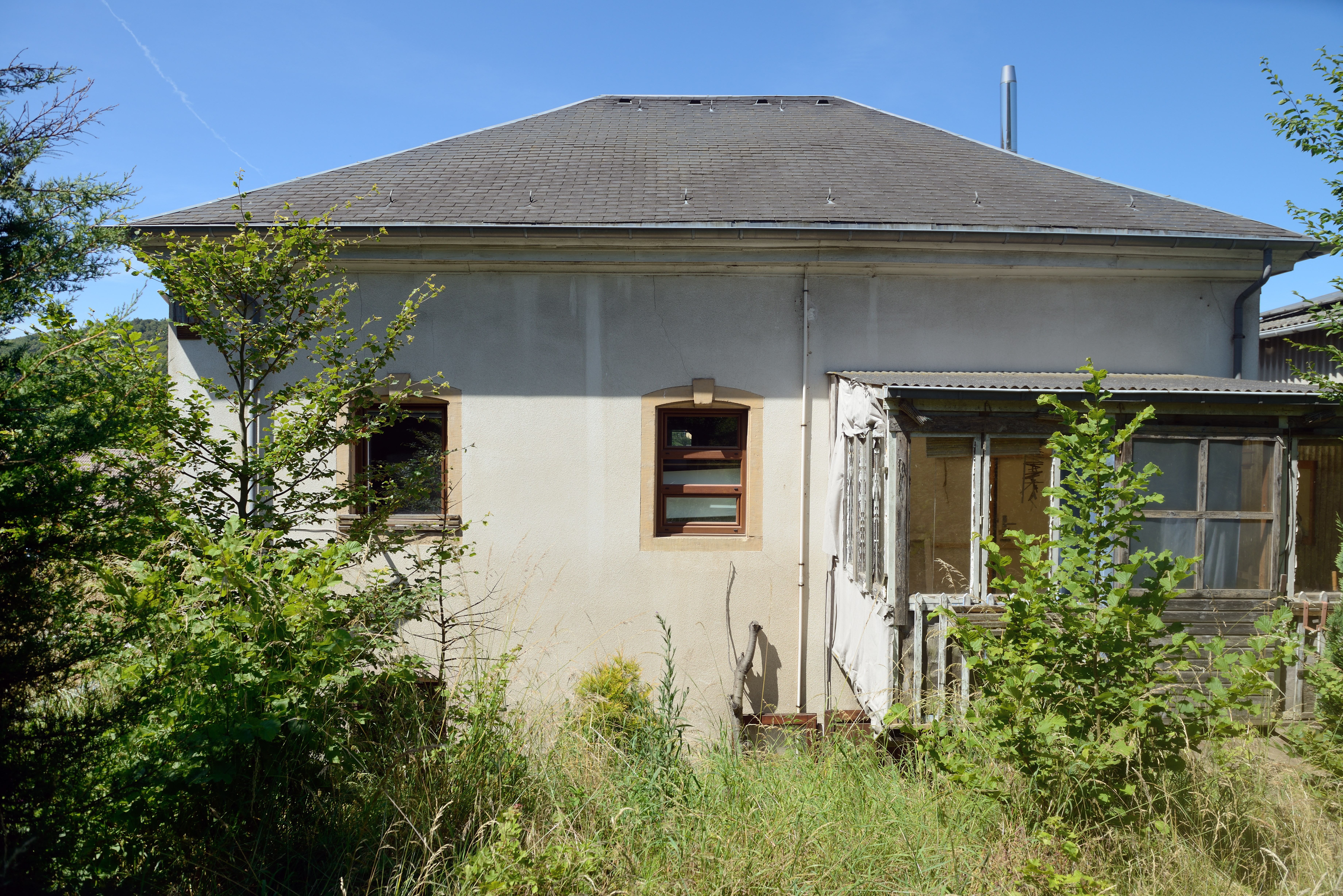 The so-called Thyes-house in Lintgen in June 2014. It was inhabited by the w4riter Félix Thyes (1830-1855). The house is destined to be demolished in the course of 2014.